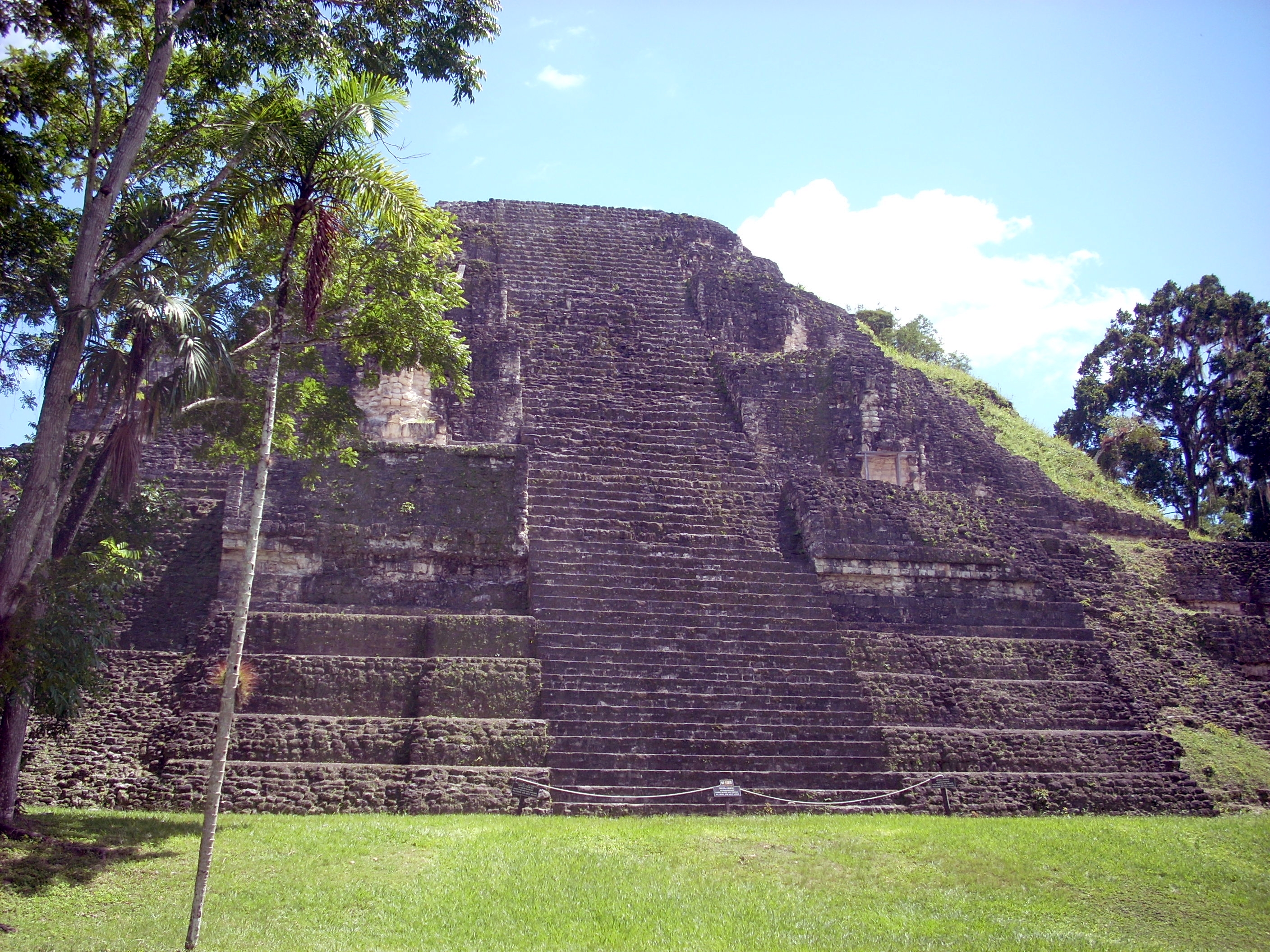 Temple 5C-54 (the Lost World Pyramid), part of a large E-Group complex dating to the Preclassic. Tikal, Peten, Guatemala. Restored west face.